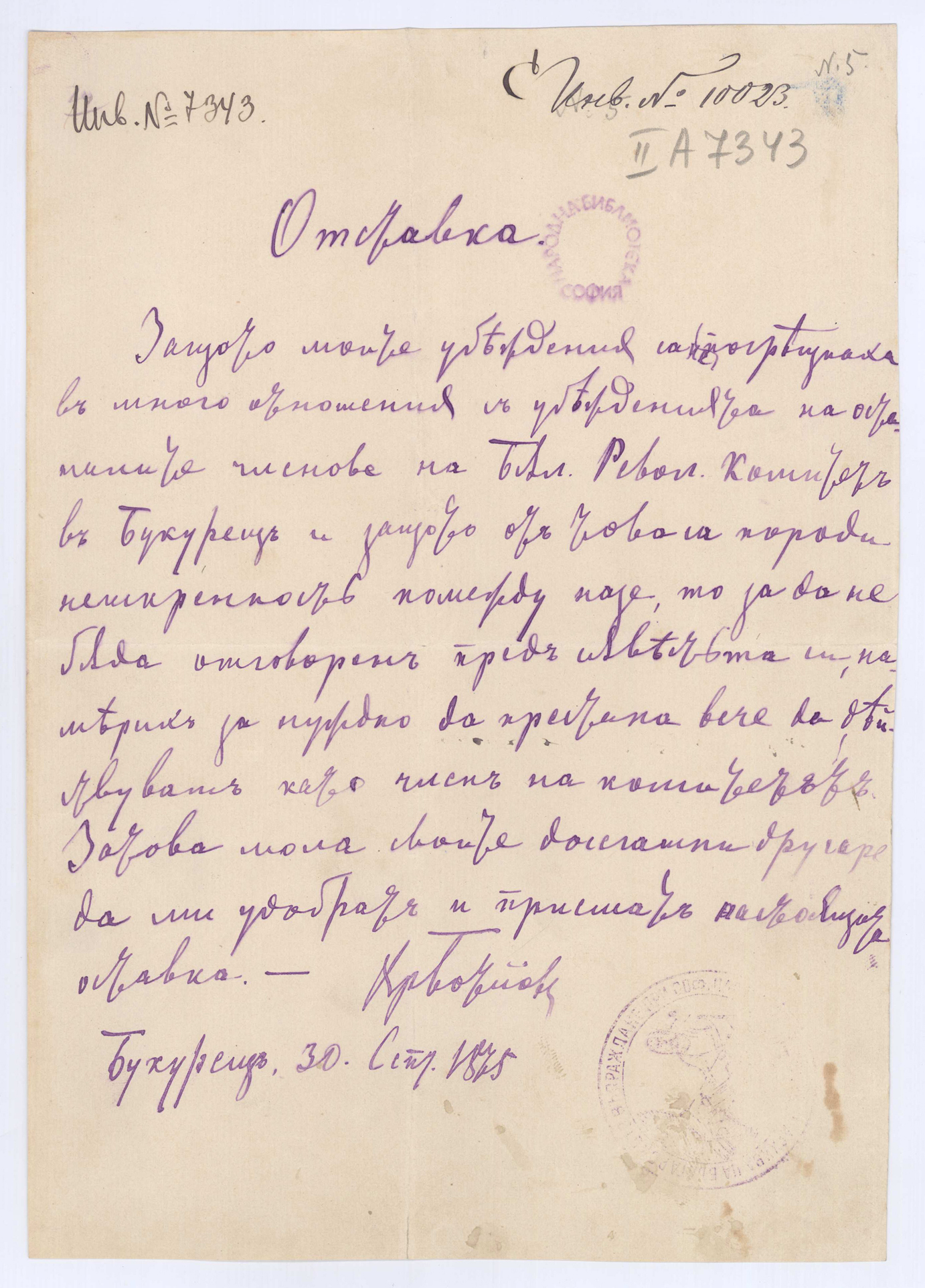 Letter of resignation from the Bulgarian Revolutionary Central Committee by poet and revolutionary Hristo Botev